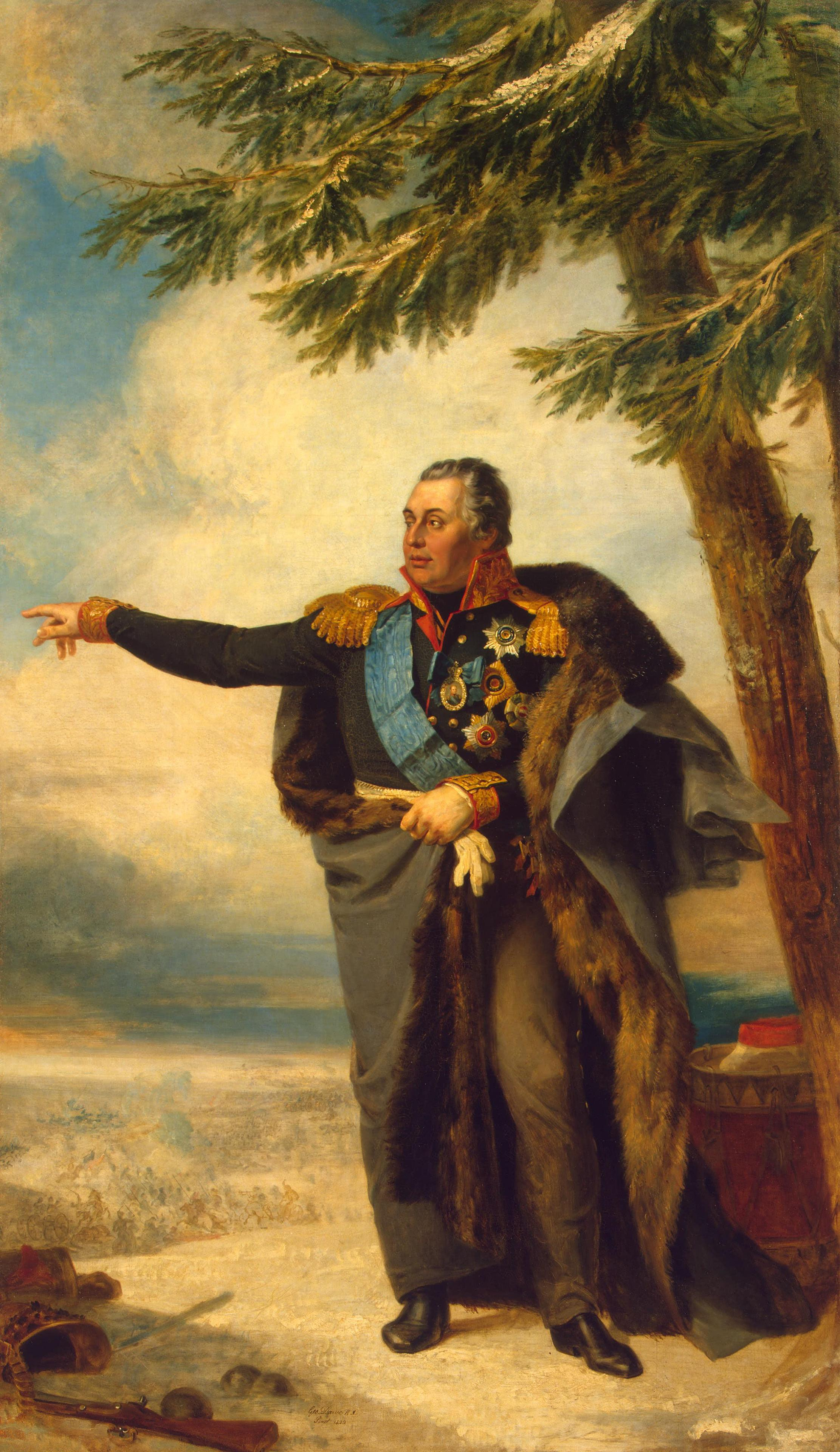 Michail Illarionovich Kutuzov (1745—1813), russian fieldmarshal. State Hermitage Museum, Winter Palace War Gallery, size: 361х258 cm